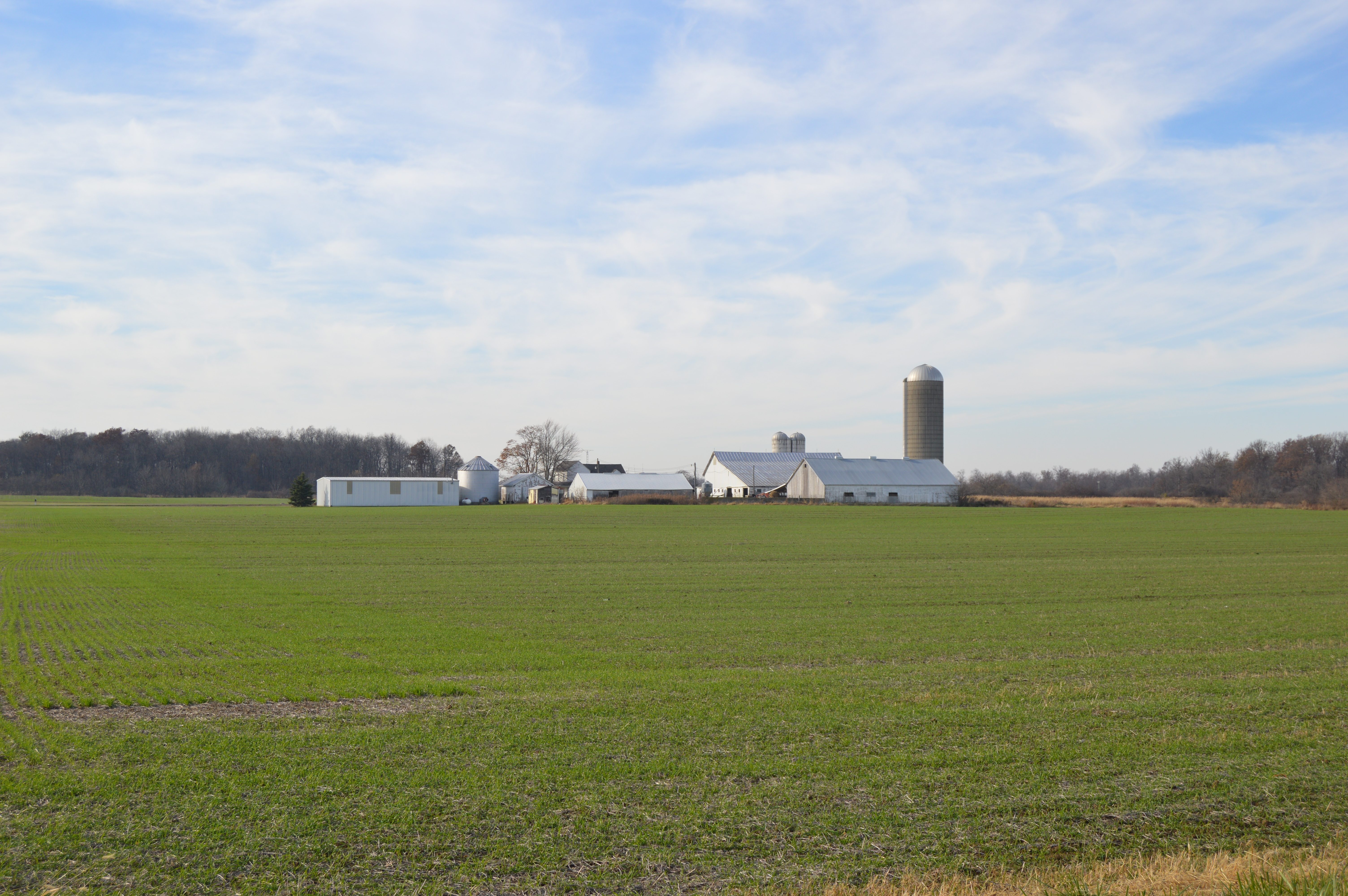 Looking northwest from the junction of Holthaus and Loy Roads northwest of Newport in northwestern Cynthian Township, Shelby County, Ohio, United States.